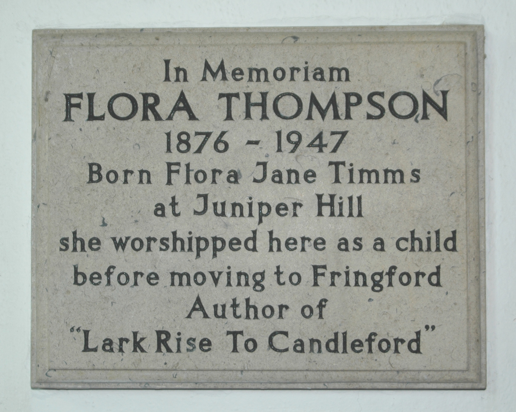 Stone plaque in memory of the novelist Flora Thompson in St Mary the Virgin parish church, Cottisford, Oxfordshire